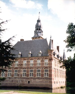 Castle of Wijchen